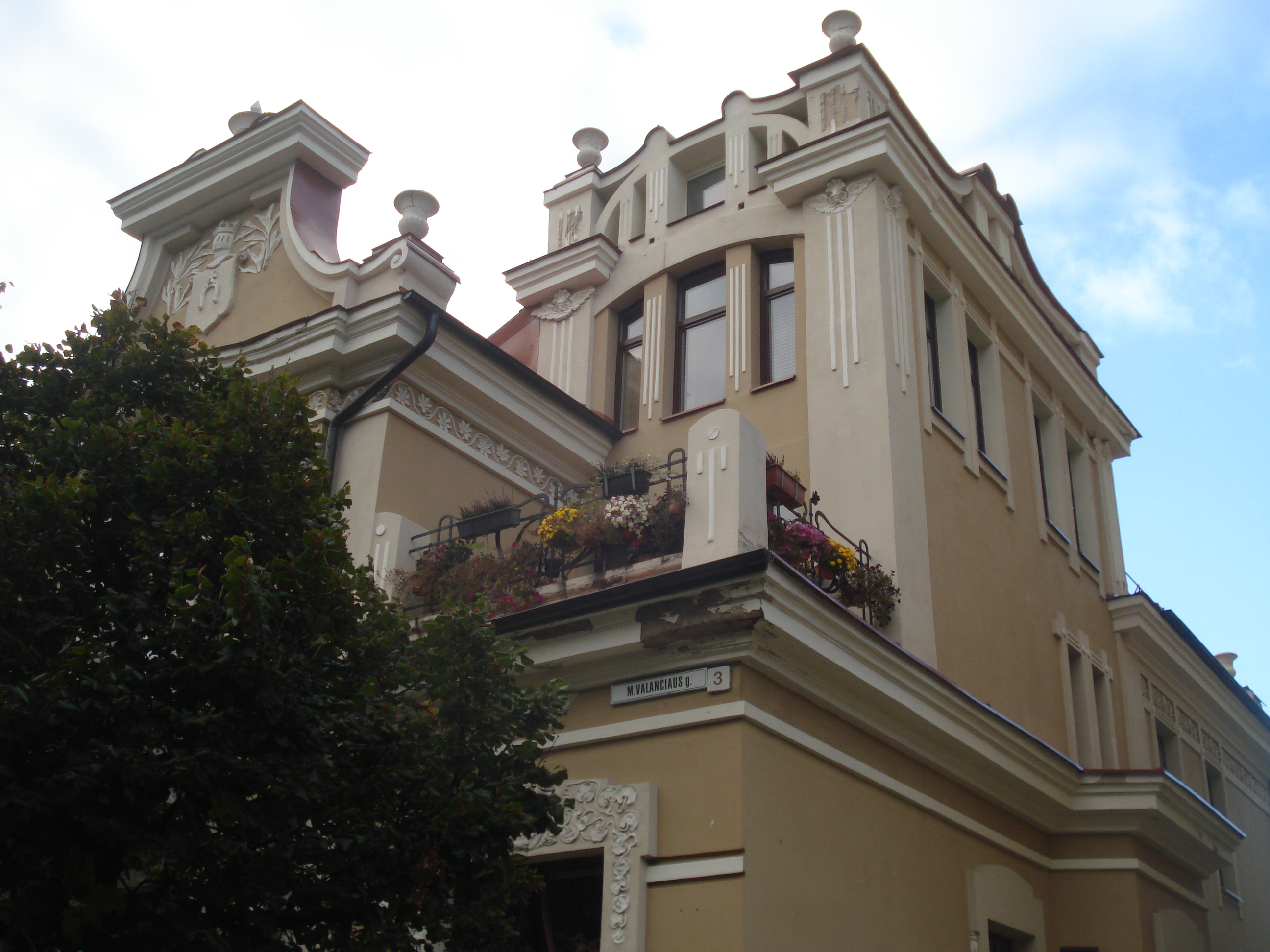 The villa of Anton Filipowicz-Dubowik (1865—1930) in Vilnius (M. Valančiaus Str. 3). 1903